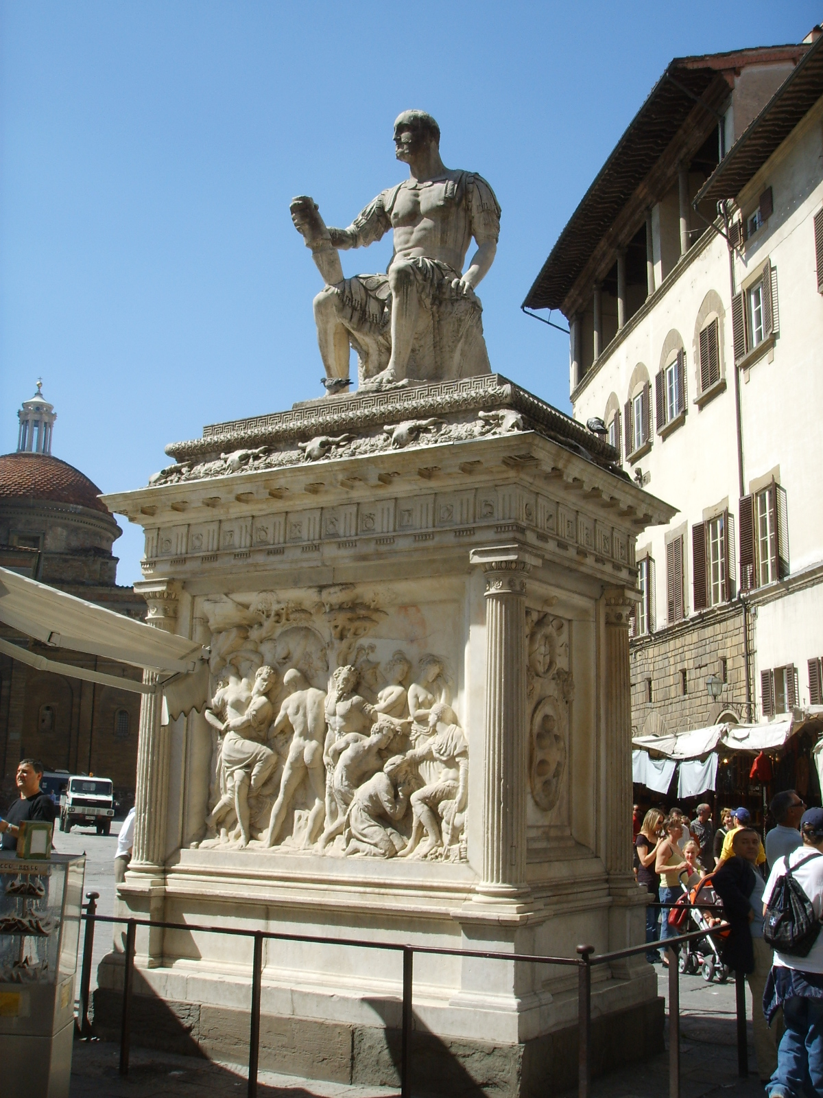 The monument to condottiero Giovanni dalle Bande Nere (Giovanni de' Medici, father to Cosimo I de' Medici), was sculpted by Baccio Bandinelli in 1540 and stands in Piazza san Lorenzo square in Florence. Left incomplete for a long time (the statue was in Palazzo Vecchio) it was completed at last in 1850.